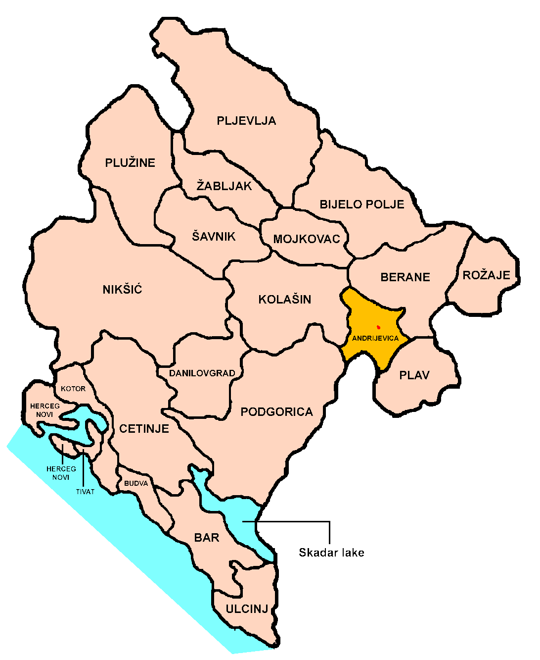 Location of Andrijevica town and municipality within Montenegro